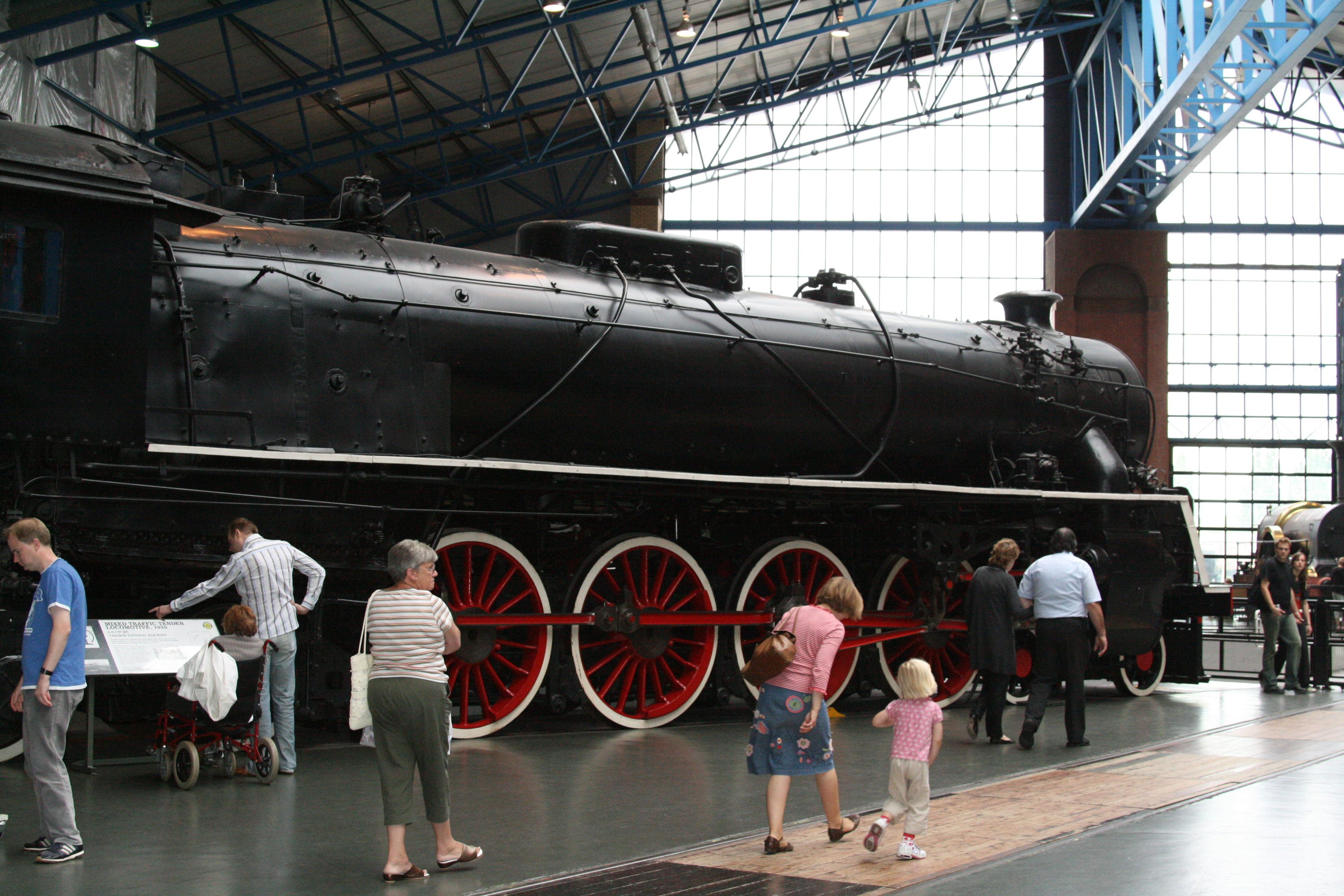 In and around York